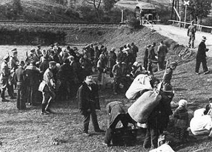 Action Saybusch (Polish: Akcja Żywiec), the mass expulsion of 20,000 Poles from the territory of Żywiec County, performed by the Wehrmacht and German police during the Nazi occupation of Poland in World War II.